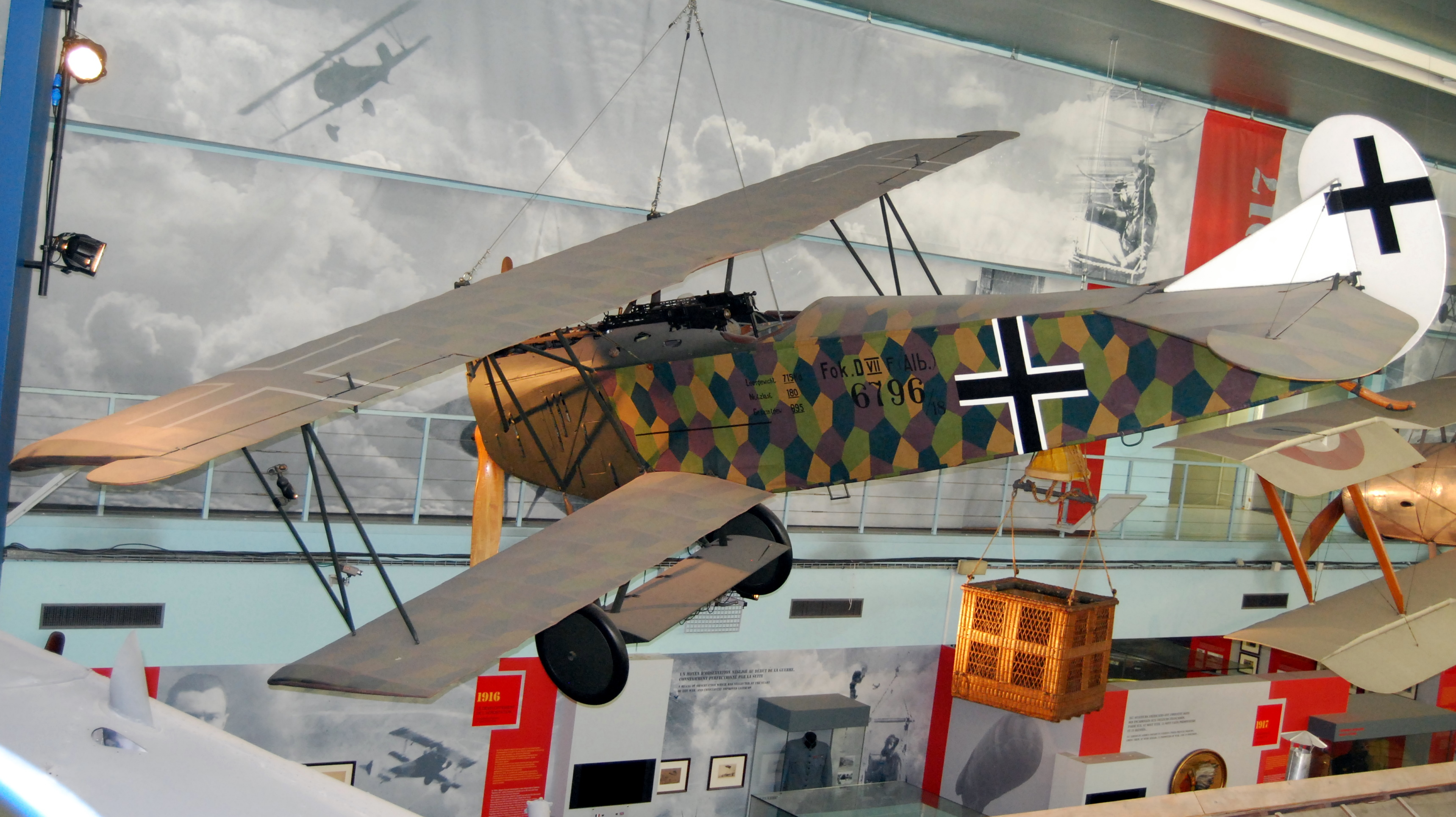 Photo ref; DSC1126-2012